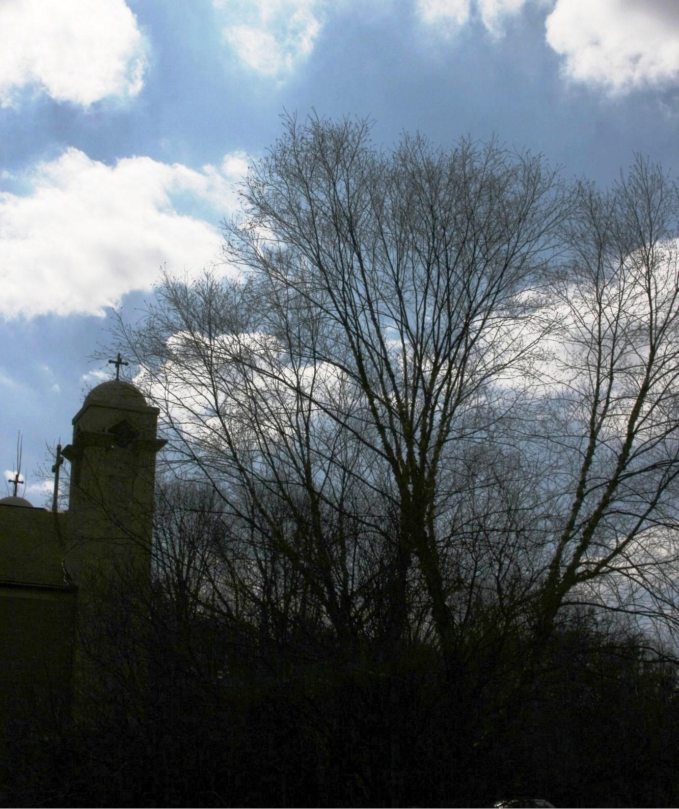 The Coptic Orthodox Church of St. Abraam in Woodbury, Nassau County, New York (east of Queens borough).